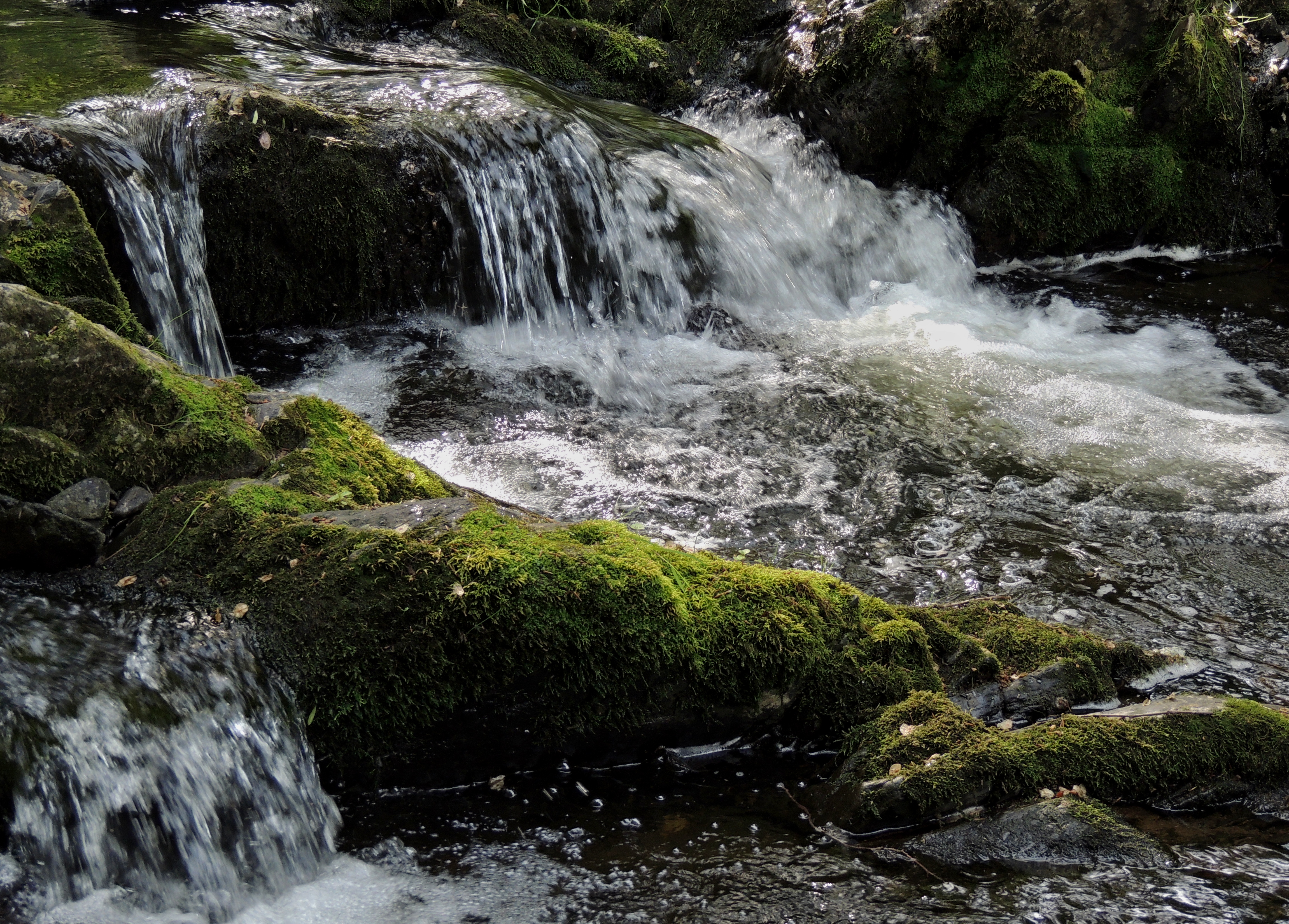 Krounka river below Zhoř (part of the village Skuteč), Nature Park The valley of Krounka and Novohradka.